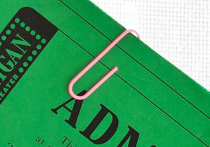 Closeup of a paper clip holding tickets.